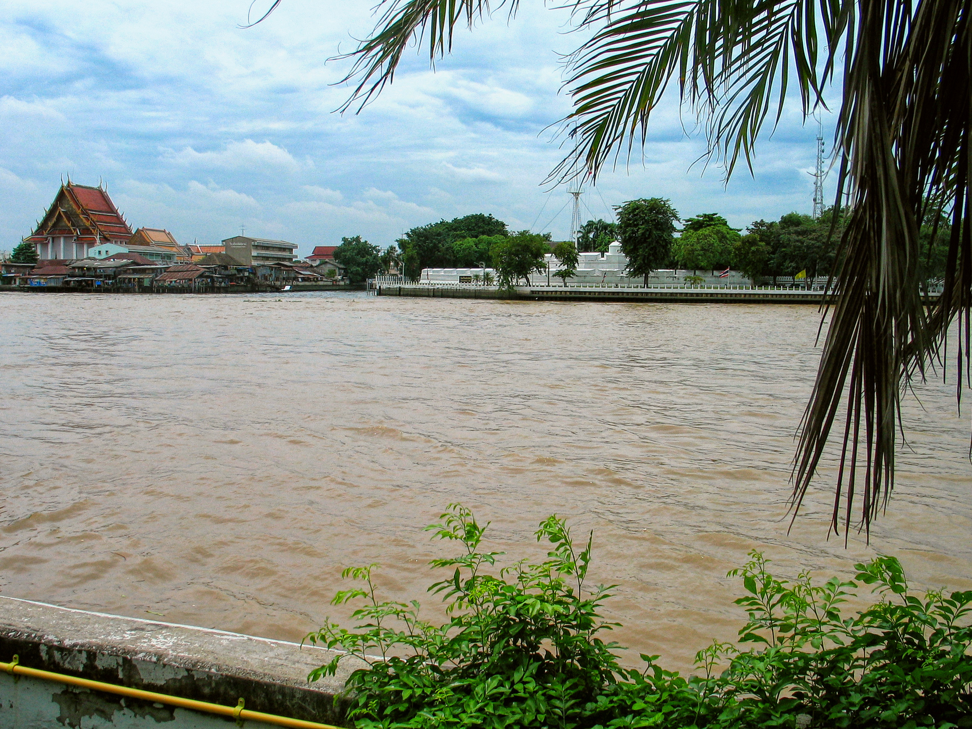 Bangkok (Thailand): mouth of Khlong Bangkok Yai between Fort Wichaiprasit and Wat Kalayanimit.